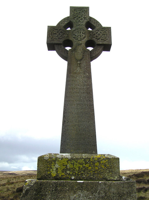 Bragan Penal Cross The inscription on the sandstone cross reads, "To the memory of the priest who was shot here while celebrating Holy Mass on Christmas Day about the year 1754. Tradition assigns the name of Father Mc Kenna to this Martyr of the Penal Days. Erected September 1938"